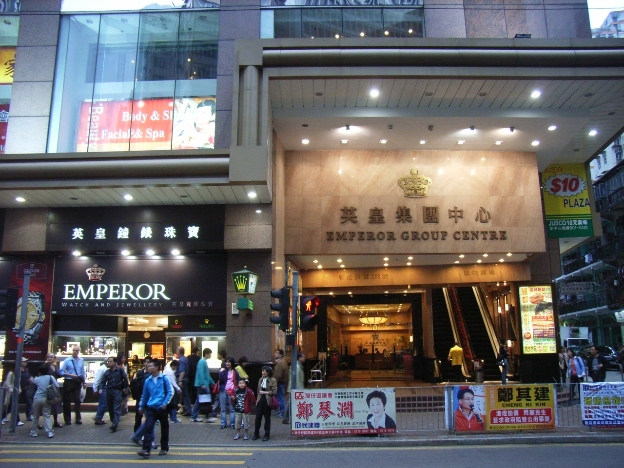 Johnston Road, Wan Chai, Hong Kong 莊士敦道是香港島zh:灣仔區的一條東西交通幹線